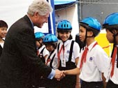 Bill Clinton at the inaugural Helmet for Kids event in Vietnam